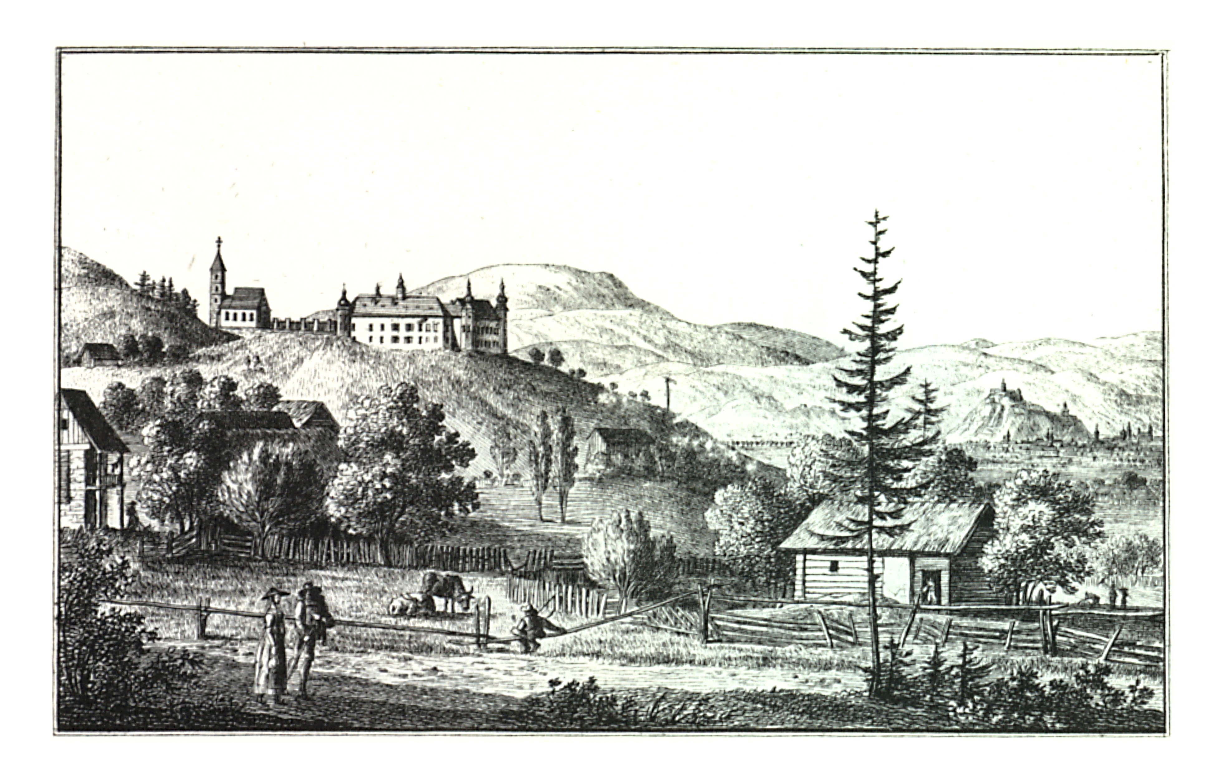 J. F. Kaiser - lithographirte Ansichten der Steyermärkischen Städte, Märkte und Schlösser, Graz 1824-1833 Joseph Franz Kaiser (1786–1859) Alternative names J. F. KaiserDescriptionAustrian printer and editorDate of birth/death 11 March 1786 19 September 1859Location of birth/death Graz (Styria) GrazAuthority control : Q1499963 VIAF: 30629353 ISNI: 0000 0000 3083 0153 LCCN: n87141671 GND: 129880159 NLP: A24960305 WorldCat creator QS:P170,Q1499963 . Scanprojekt Community Projektbudget 2012 This scan or this PDF-file was created within the GLAM-project Bookscanning, supported by Wikimedia Germany and Wikimedia Austria as a part of the community-project to capture books, documents and pictures which are not eligible to copyright or for which the copyright has expired. This document describes or depicts an object which is located in Austria today. Send requests for uncompressed scans to Hubertl. This work is in the public domain in its country of origin and other countries and areas where the copyright term is the author's life plus 100 years or less. You must also include a United States public domain tag to indicate why this work is in the public domain in the United States. This file has been identified as being free of known restrictions under copyright law, including all related and neighboring rights.